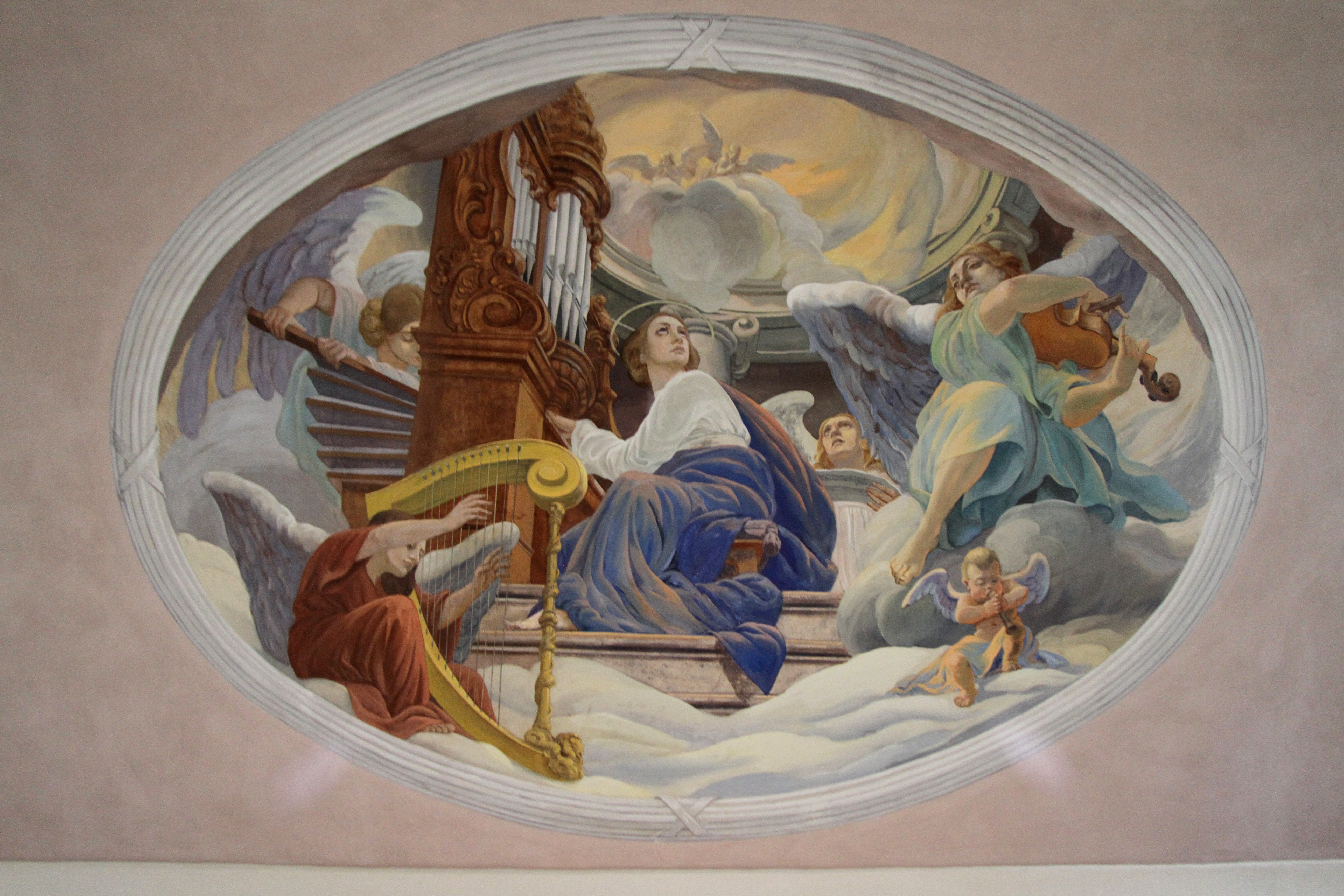 Church of St. Erhard in Rheinmünster-Stollhofen, interior decoration.